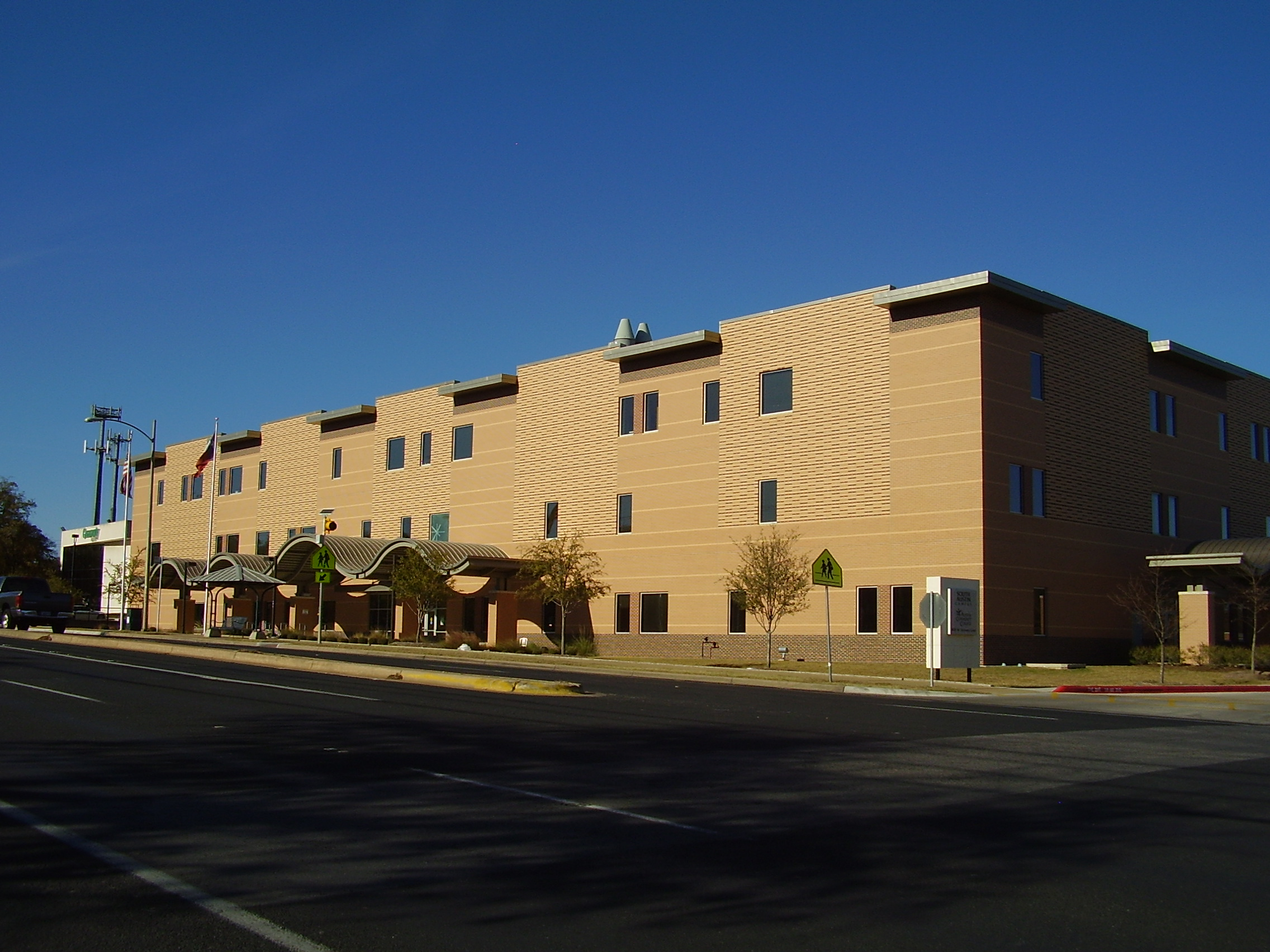 Austin Community College South Austin